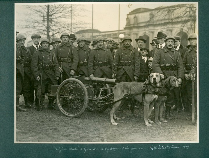 This Belgian Machine Gun group were in Washington D.C. in 1917 to help sell War Bonds.